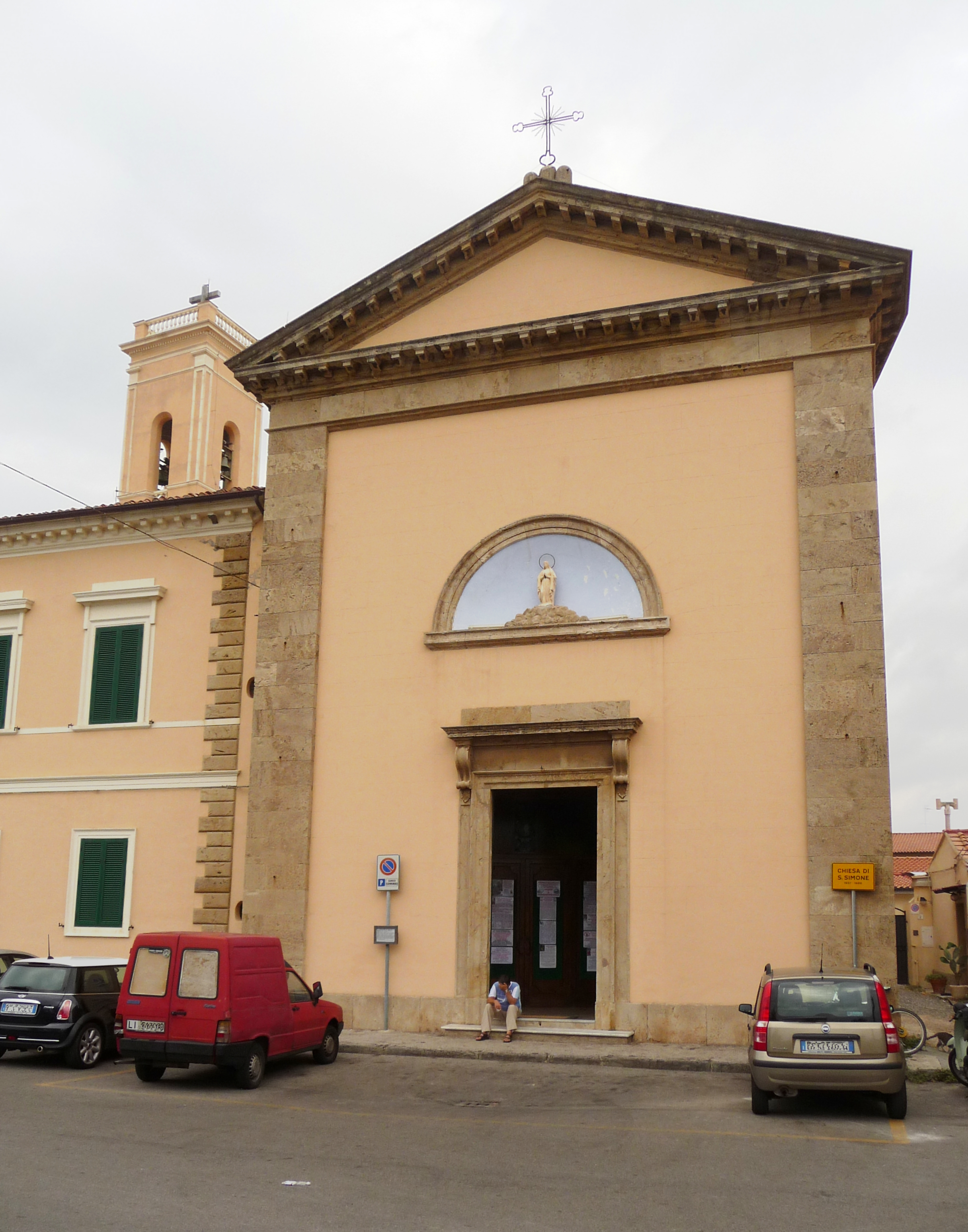 Church "Chiesa di San Simone e Immacolata Concezione", Livorno (Ardenza), Italy